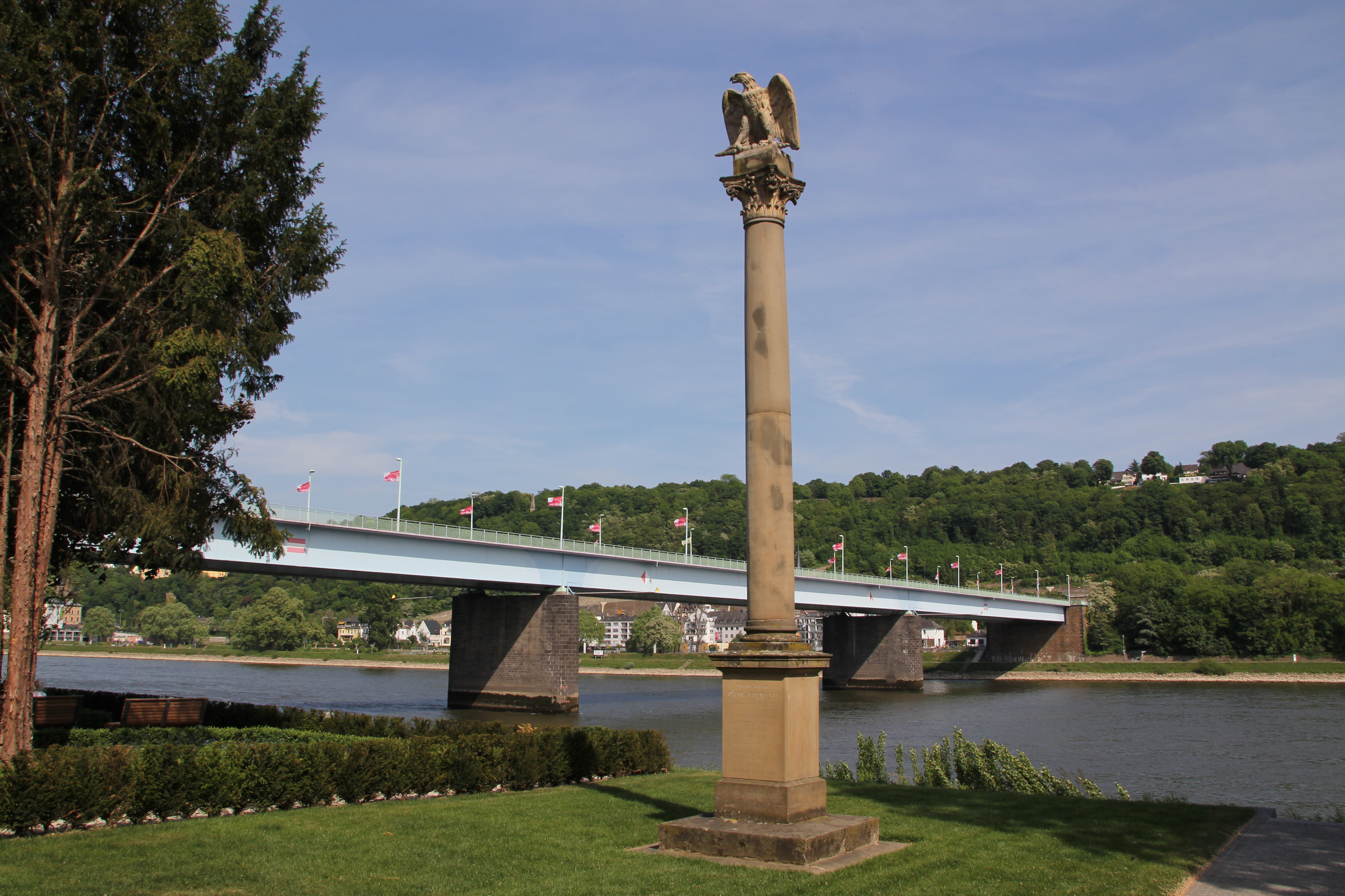 Rhine park in Koblenz